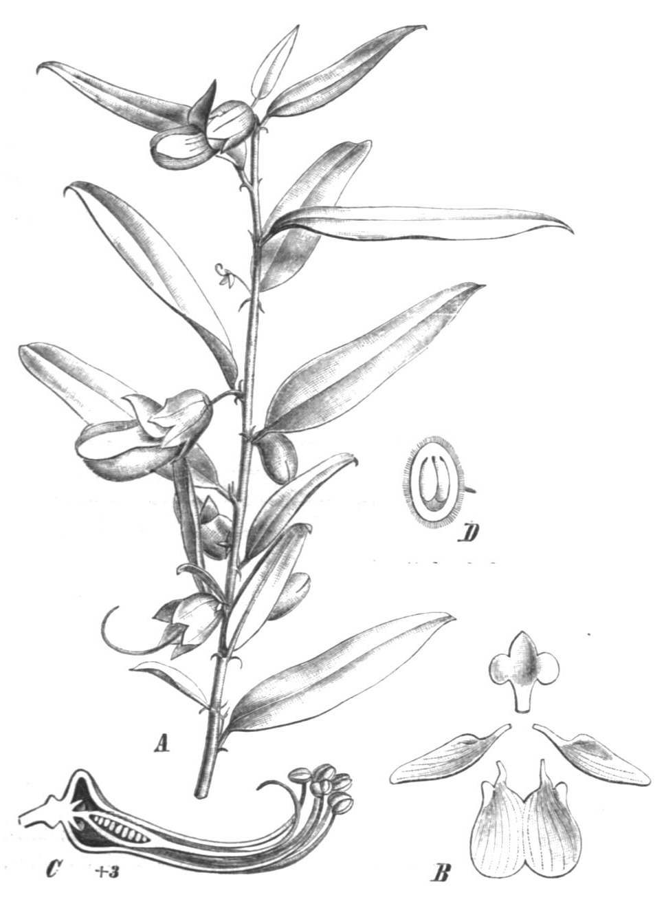 Illustration from book